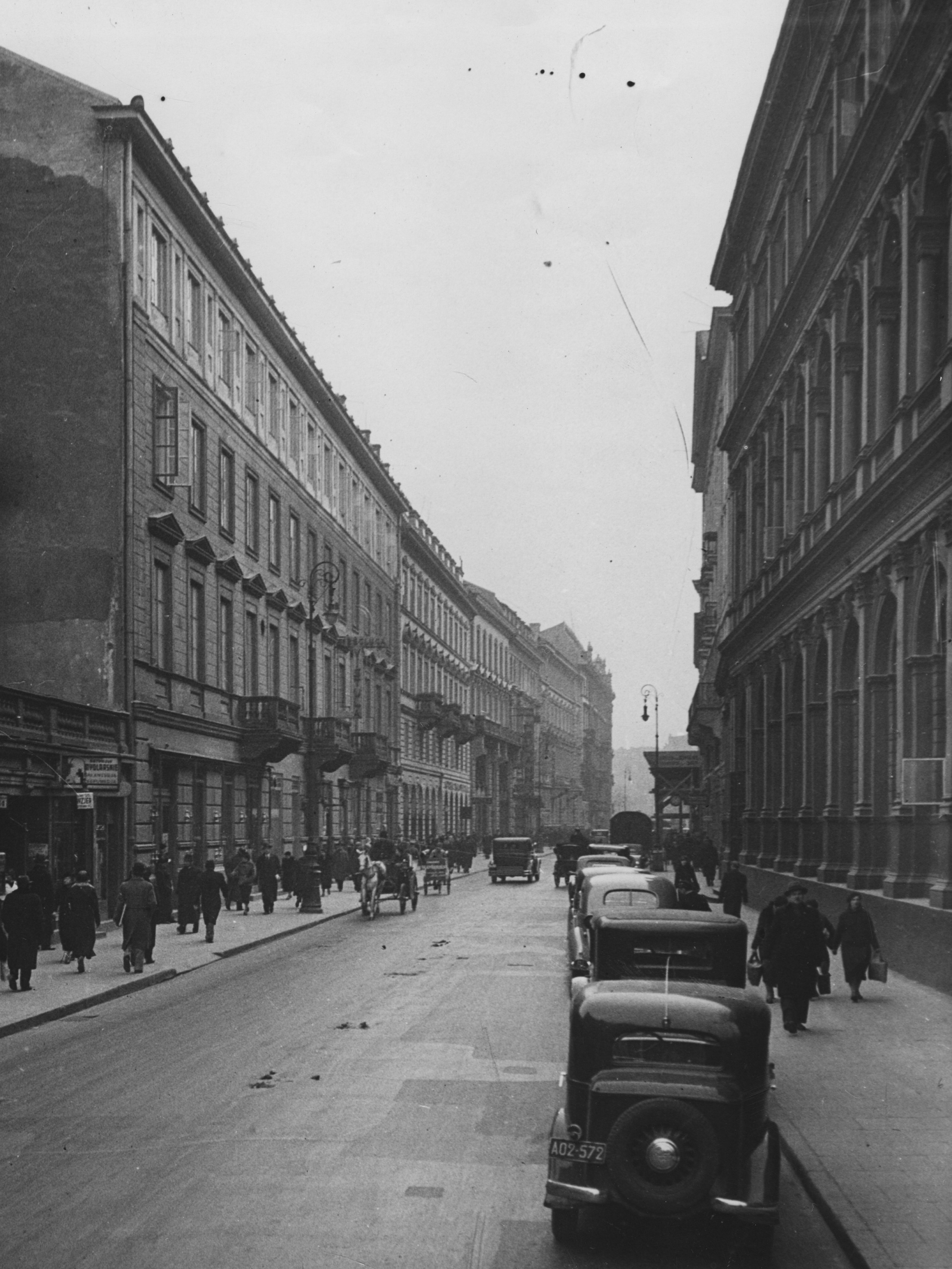 Mazowiecka Street in Warsaw